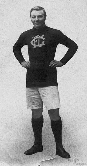 George Challis from 1912-1915